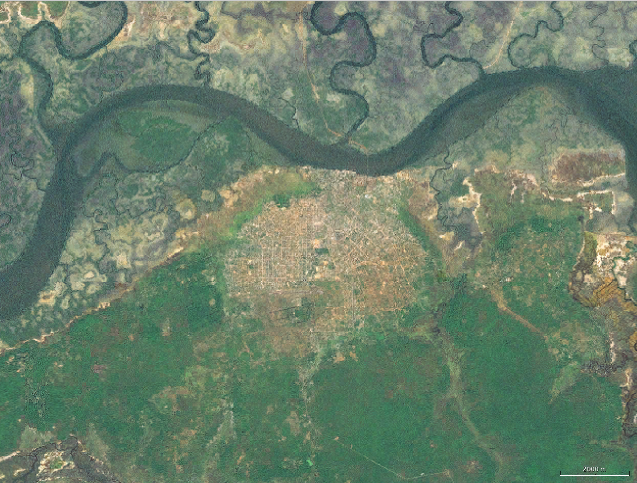 The city of Ziguinchor, Senegal, as seen from space. It is bordered by the Cassamance river to the north.